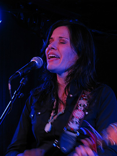 Shannon McNally playing at The Saint in Asbury Park, NJ on May 18, 2013. Photo by LHCollins.